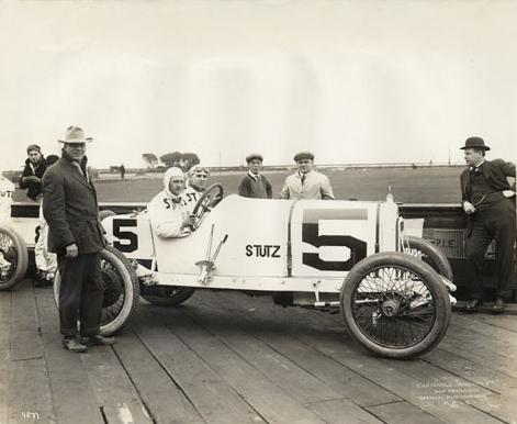 Gil Andersen poses in his Stutz before either the 1915 American Grand Prize and Vanderbilt Cup in San Francisco.